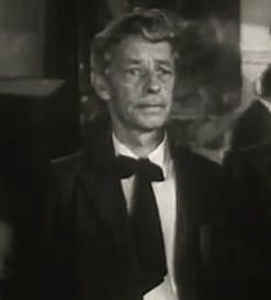 Cyril Delevanti in The Phantom of 42nd Street (19450 - cropped screenshot